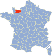 Map of France with highlighted department of Calvados (14).